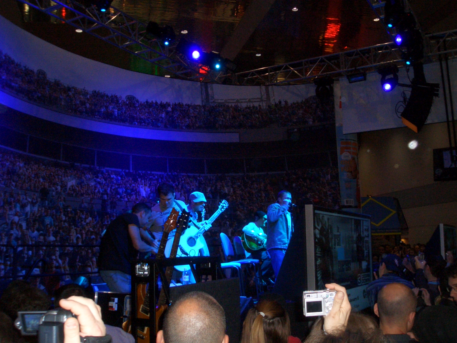 3 Doors Down sets up for their first show.